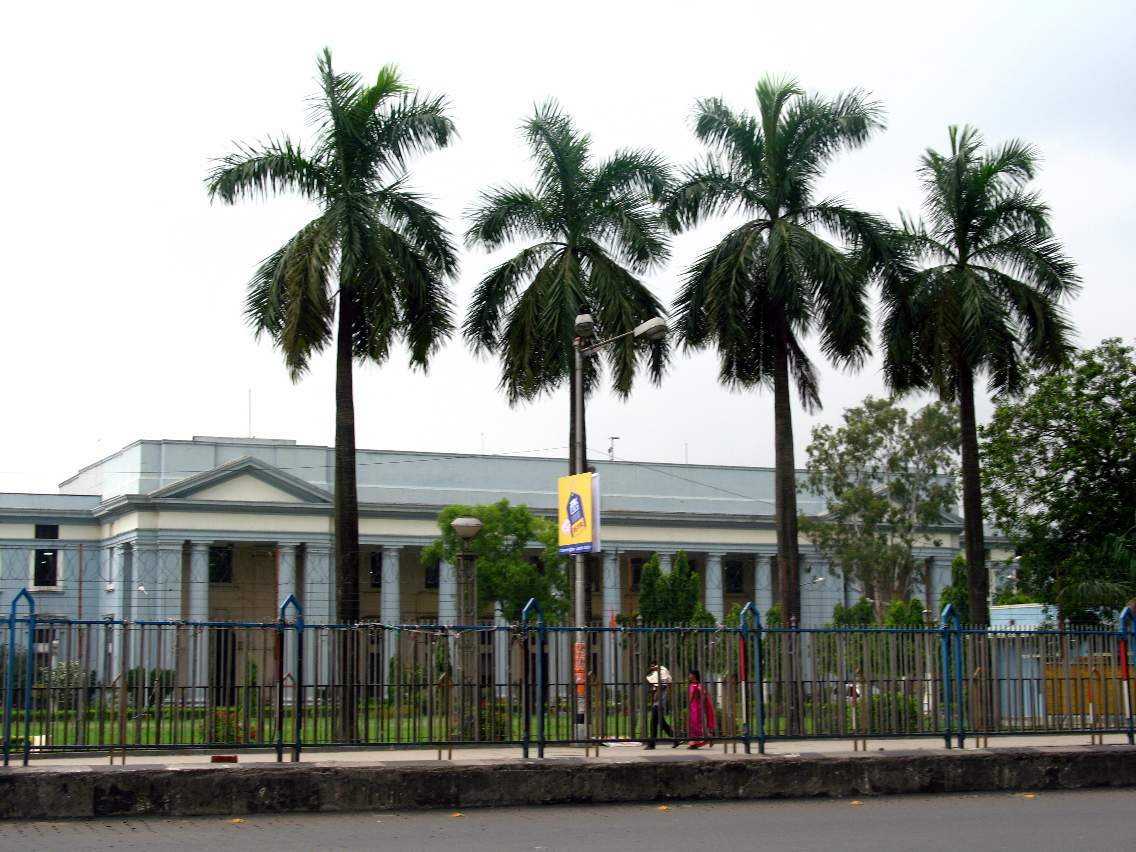 Although it was proposed in the 1930's, the building was left half done due to the world war II. Ultimately, the building work was completed by 1951. The mint was fully operational from 1952.